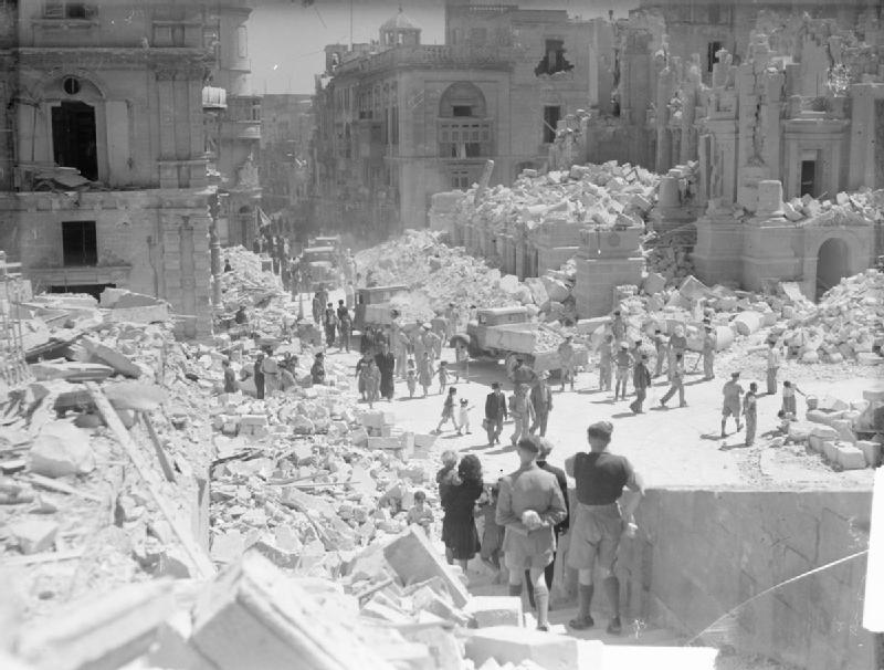 Bomb Damage in Valletta, Malta, 1 May 1942. A heavily bomb-damaged street in Valletta, Malta. This street is Kingsway, the principle street in Valletta. Service personnel and civilians are present clearing up the debris.